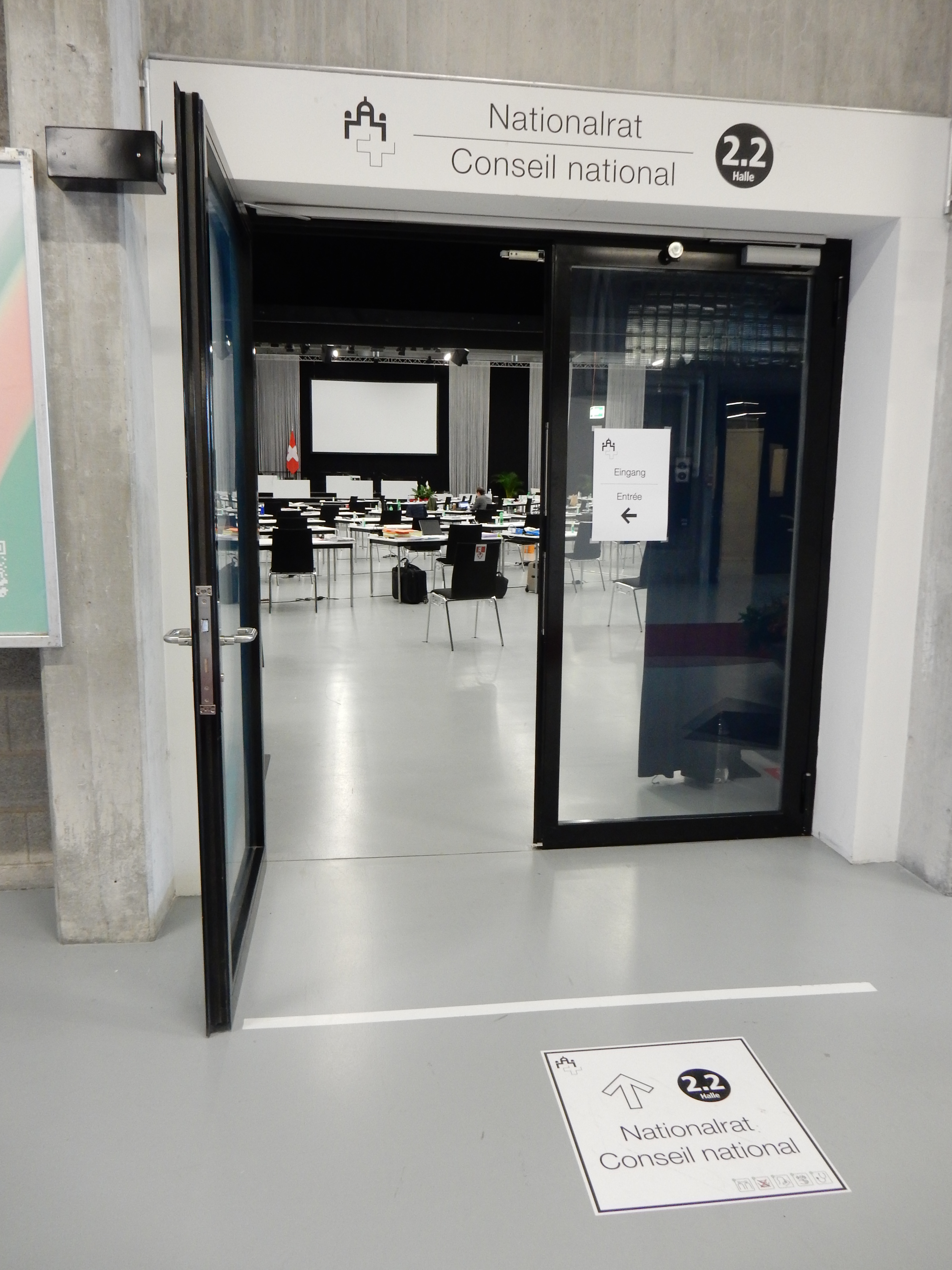 Sessions of the Swiss Federal Assembly during the COVID-19 pandemic